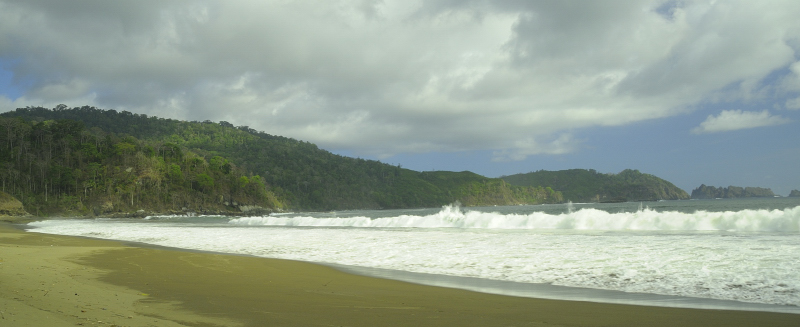 Beach Bande Alit, Meru Betiri National Park, Tempurejo, Jember, Jawa Timur